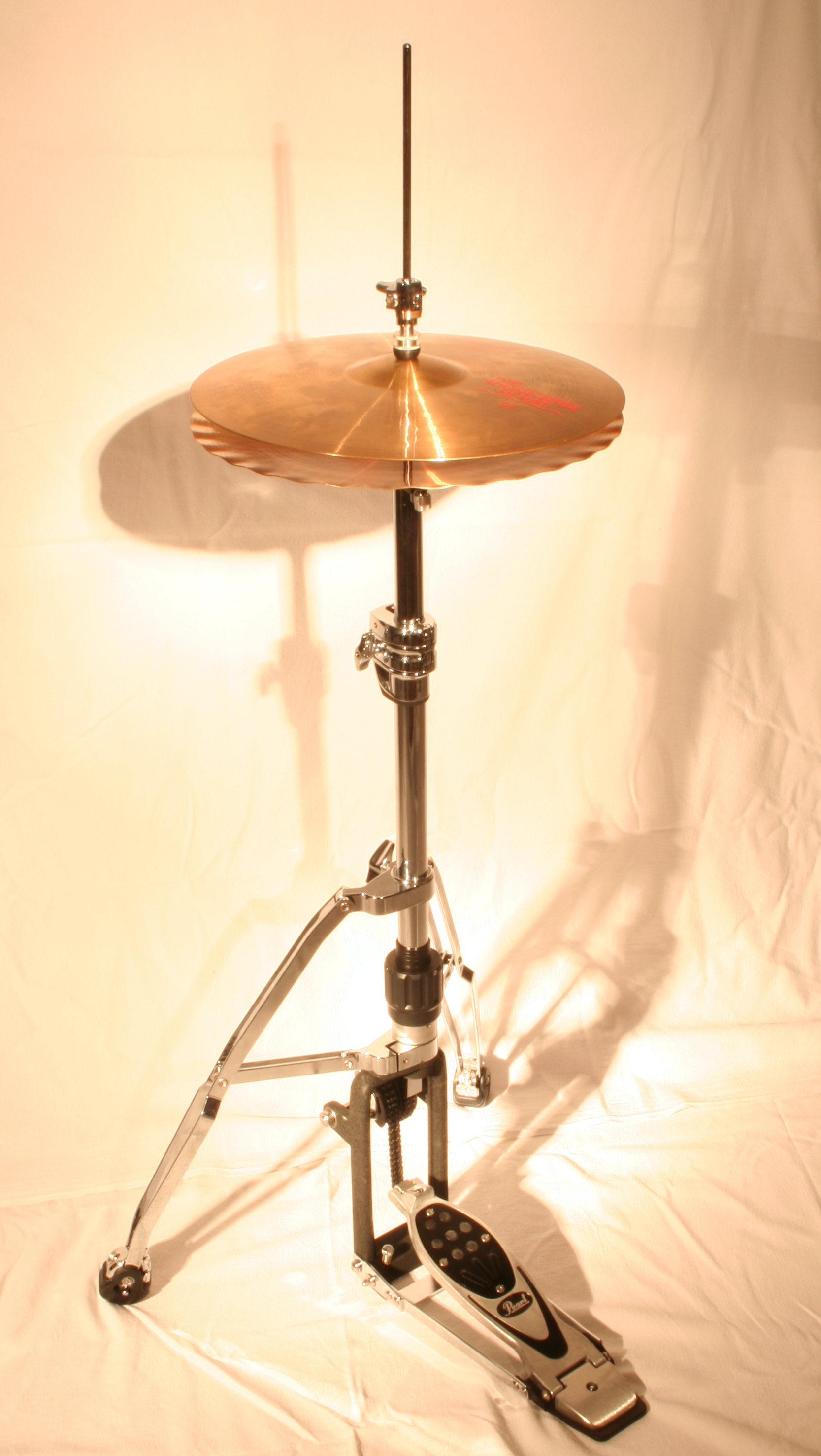 "Pearl H2000 Eliminator" with Paiste 2002 HiHat "Sound-Edge" (14 inches)